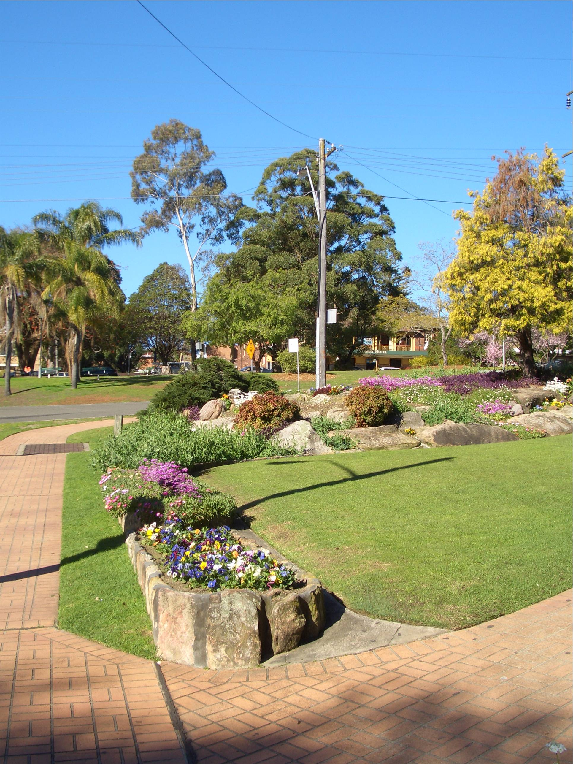 Oatley, Sydney, Australia. I took this photo on the 14th August 2006. J Bar 06:26, 18 August 2006 (UTC)